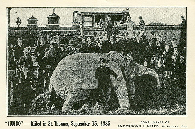 Advertising card, 1885